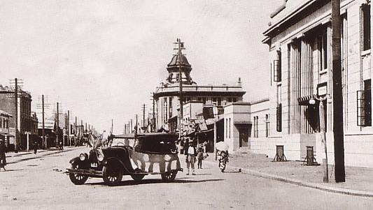 Oodori in Toyohara(Yuzhno-Sakhalinsk Южно-Сахалинск)